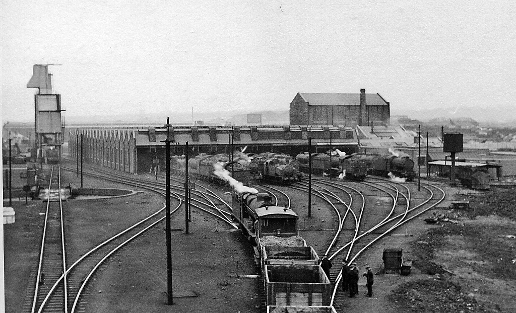 Darnall Locomotive Depot. View eastward of the Depot, in relatively pristine condition just six years after it was opened (on 11/4/43), a 'thoroughly modern' steam depot that was required urgently in World War Two to replace the very antiquated and confined Depot at Neepsend. These were the principal ex-Great Central Depots in Sheffield, providing many of the locomotives handling the passenger and - immense - freight traffic originating in the area and conveyed on the ex-GC main axes, Manchester - Sheffield - Nottingham and the South/Doncaster - Scunthorpe - Grimsby/Lincoln etc. In 1950 in the Eastern Region of BR it was coded 39B (in the Manchester District) and had an allocation of 95, comprising:- 18 4-6-0s, 1 4-4-2, 30 2-8-0s, 21 0-6-0s, 2 4-4-2Ts, 18 0-6-2Ts, 3 0-6-0Ts and 2 0-4-0Ts. The photograph shows a representative selection on a quiet Sunday morning. The Depot did not last long: it was closed to steam on 17/6/63 and totally on 4/10/65.